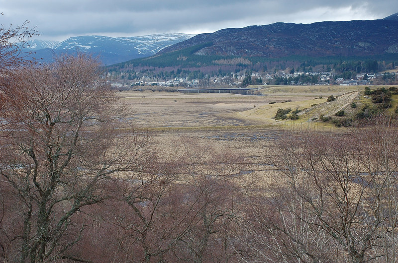 Insh Marshes National Nature Reserve The floodplain of the River Spey is managed as a nature reserve, with RSPB bird hides near its western end. Kingussie can be seen beyond the bridge carrying the A9 across the Spey.